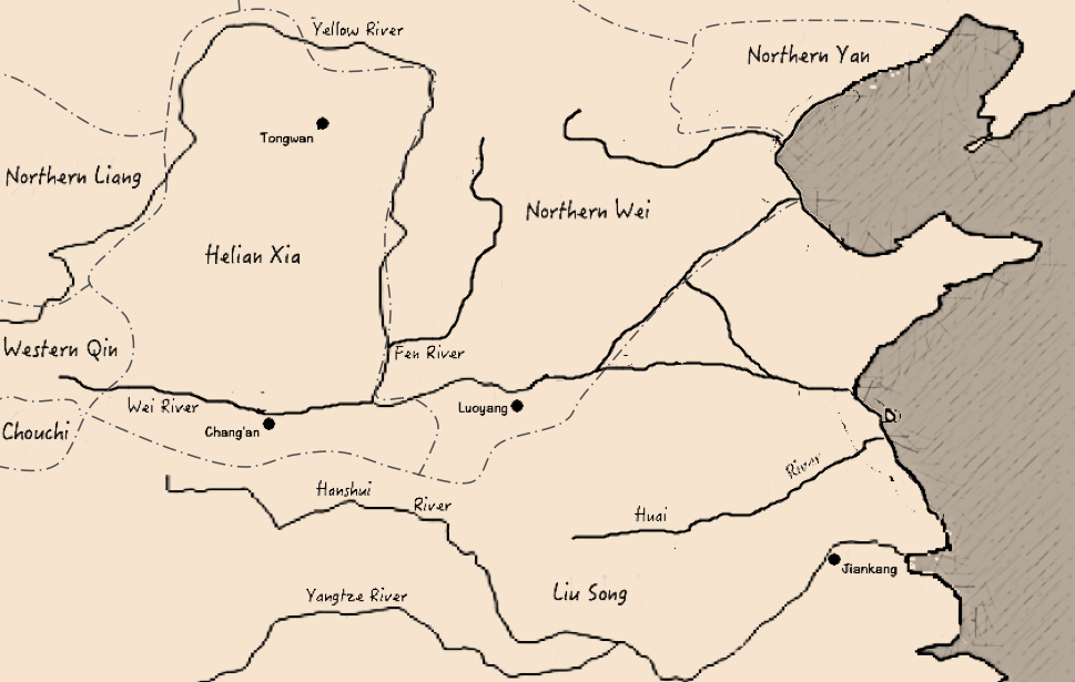 Situation of Northern China in 420s